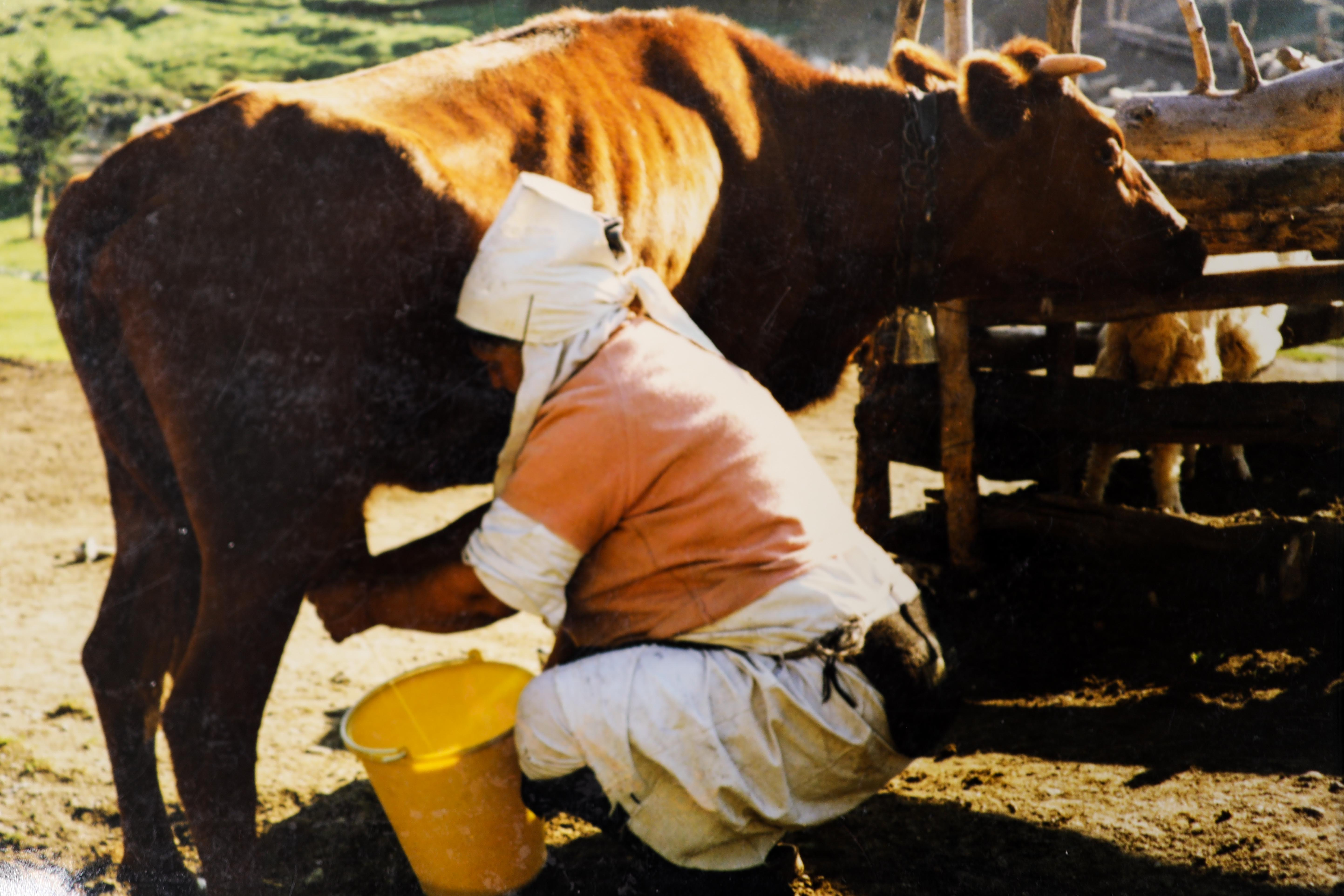 Buša cattle - Red Metohian Buša - Mt Djeravica Prokletije leg P.Cikovac